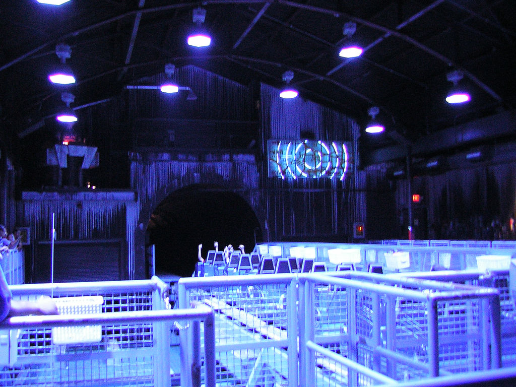 Mr. Freeze roller coaster station at Six Flags over Texas.